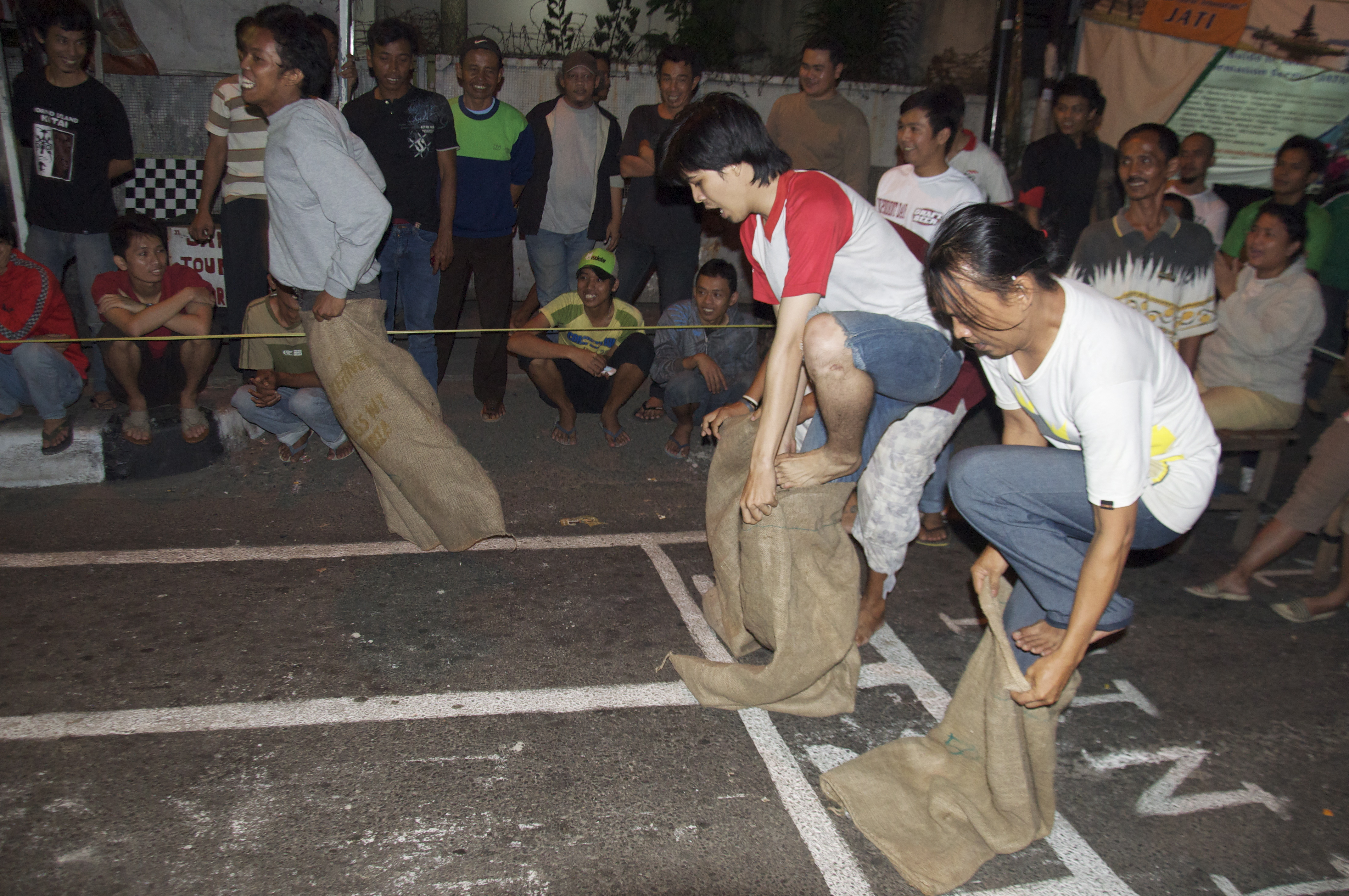 Sack race celebrating Indonesian Independence Day at Jalan Jaksa, Jakarta.